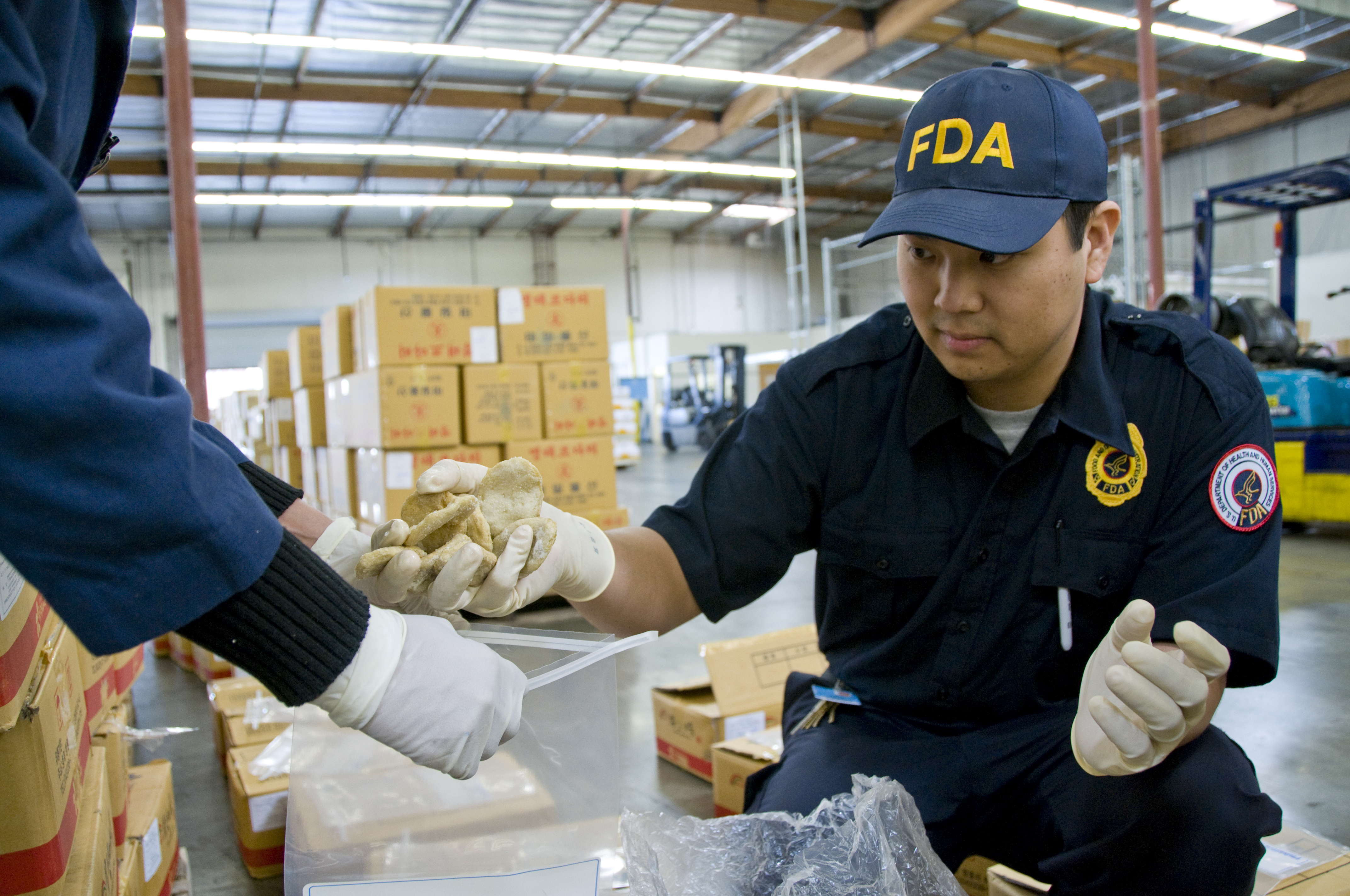 Feb. 4, 2009; Los Angeles, CA – FDA field inspectors prepare samples of imported seafood for laboratory analysis. To learn more about how FDA is helping to ensure seafood safety, read these Consumer Updates: Fish Hazards and Controls: More Than a Fish Story How FDA Regulates Seafood: FDA Detains Imports of Farm-Raised Chinese Seafood This photo is free of all copyright restrictions and available for use and redistribution without permission. Credit to the U.S. Food and Drug Administration is appreciated but not required. Privacy and use information: FDA photo by Michael J. Ermarth